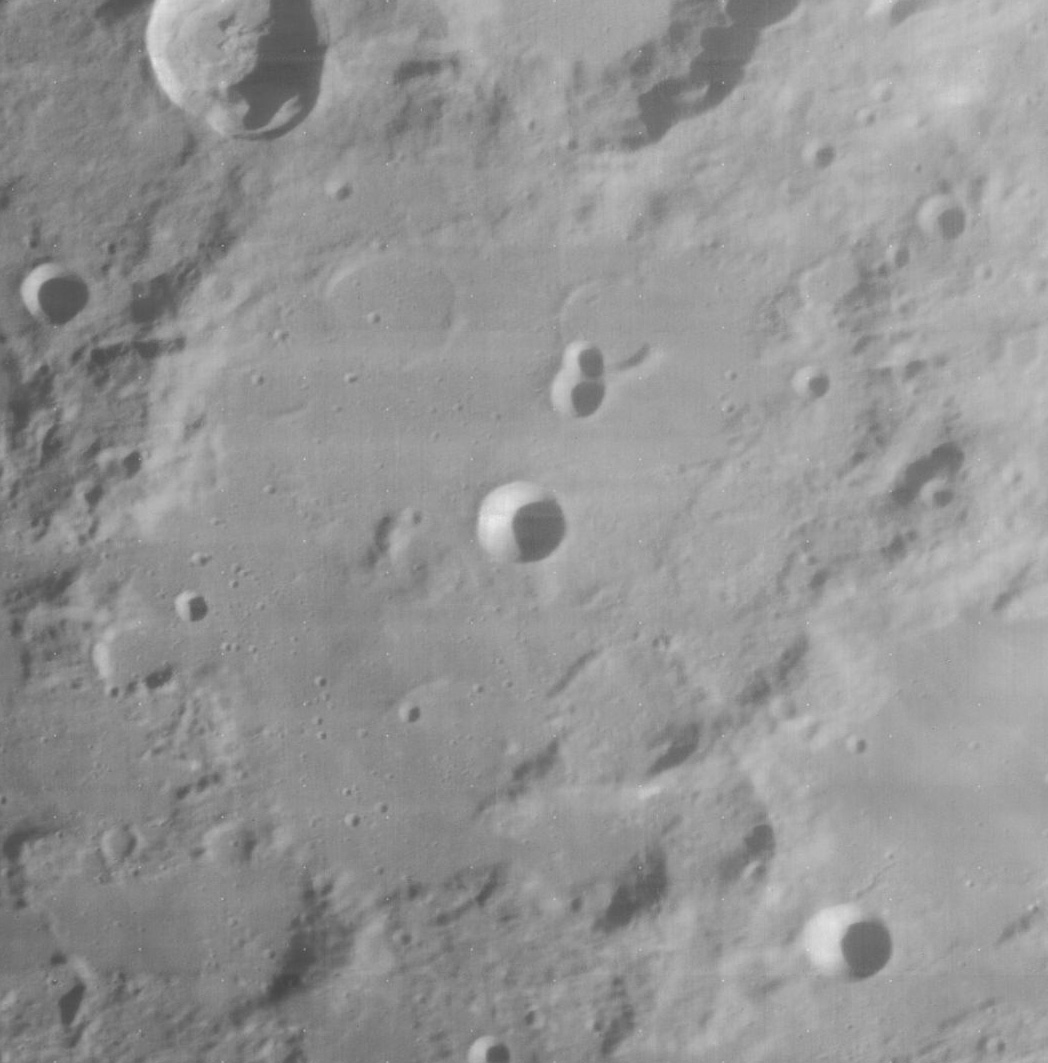 De La Rue, on the moon.